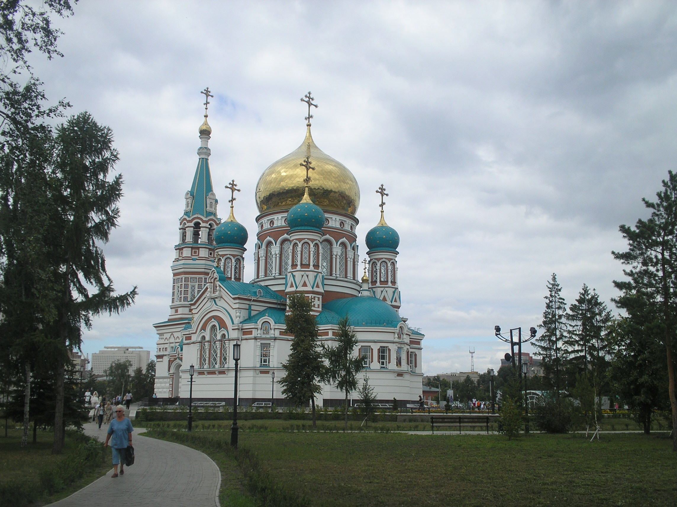 Omsk